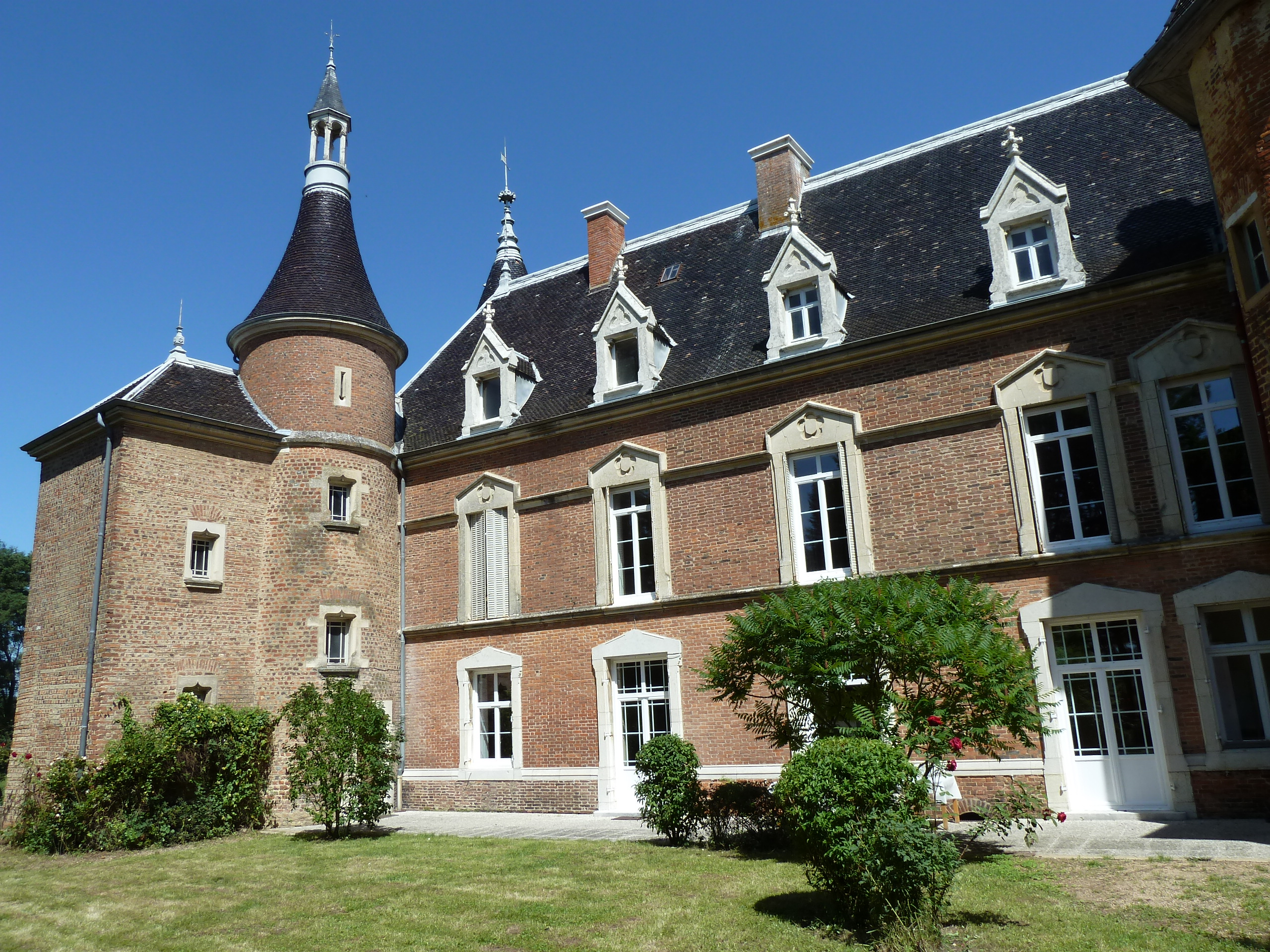 The Castle in Romans (Ain)